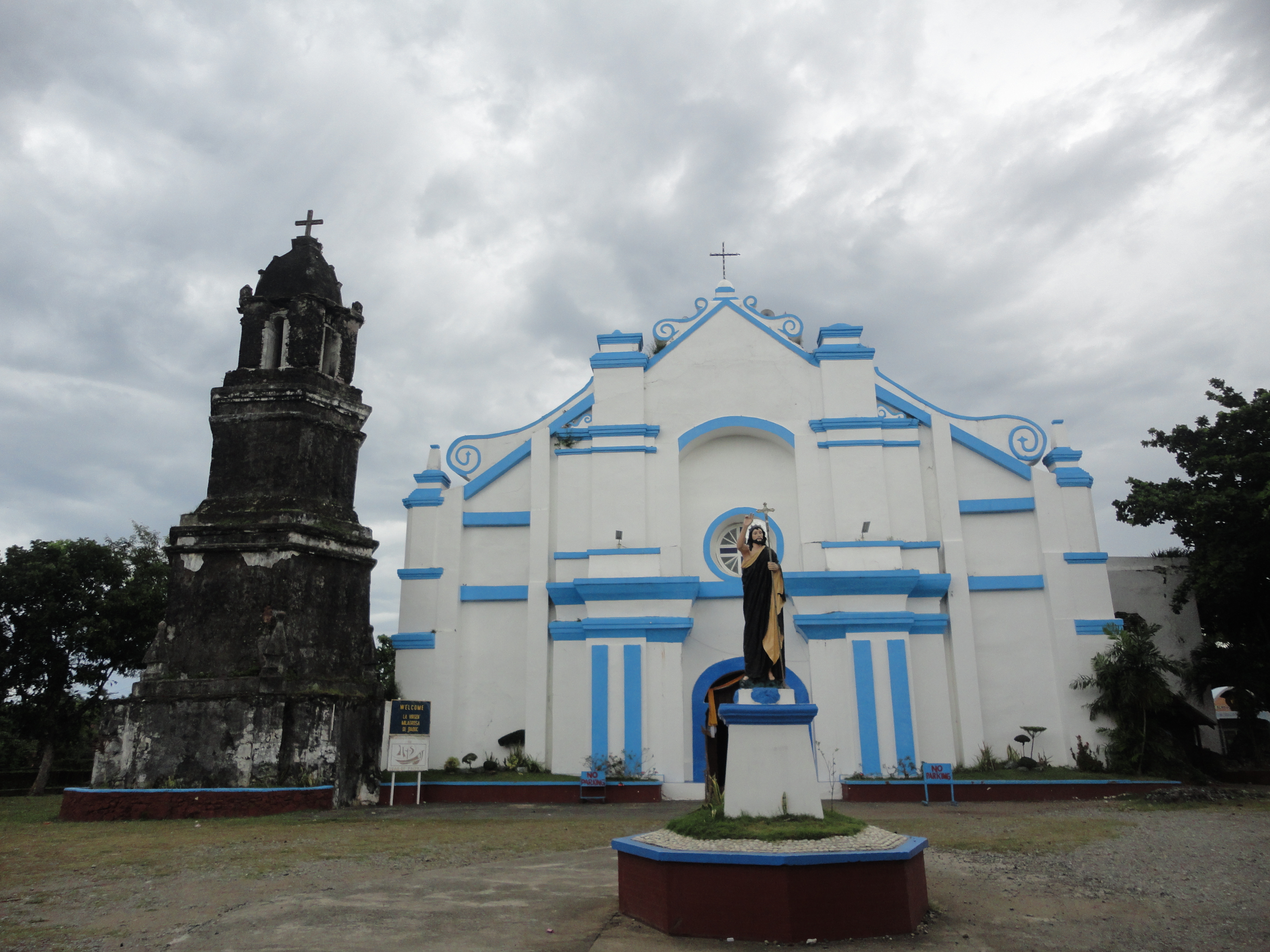 Badoc Church front 2